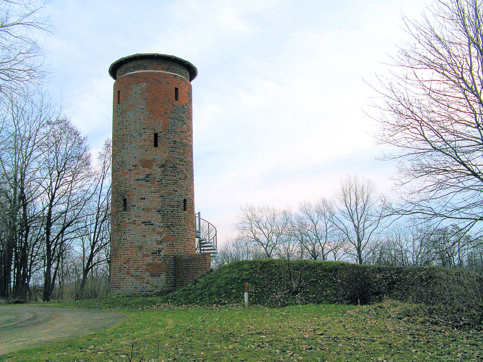 Fangelturm (prison tower) / former Steinburg (stone castle) on the border between Parchim and Rom, Mecklenburg-Vorpommern, Germany